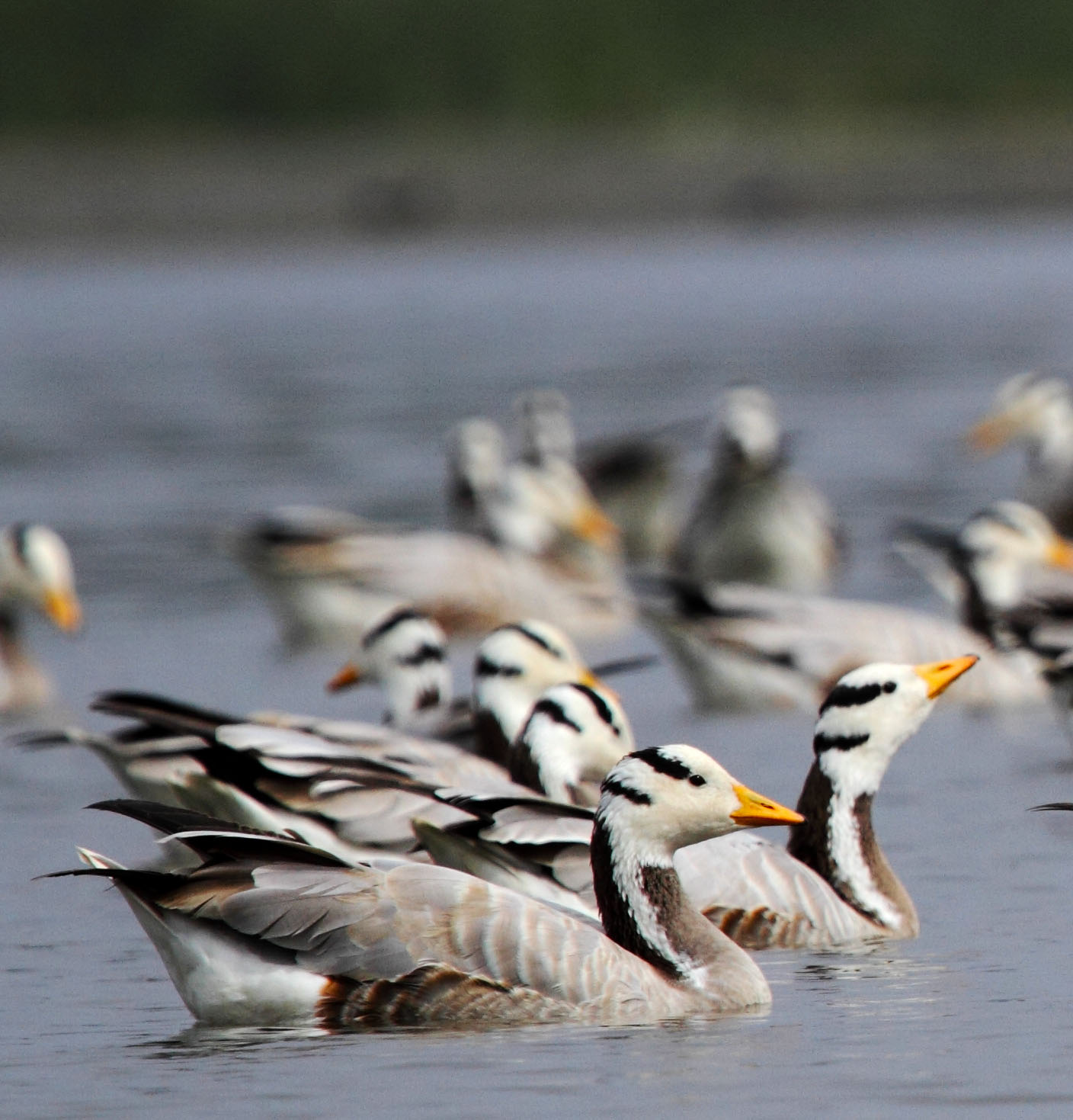 Bar-headed Goose in Mysore region